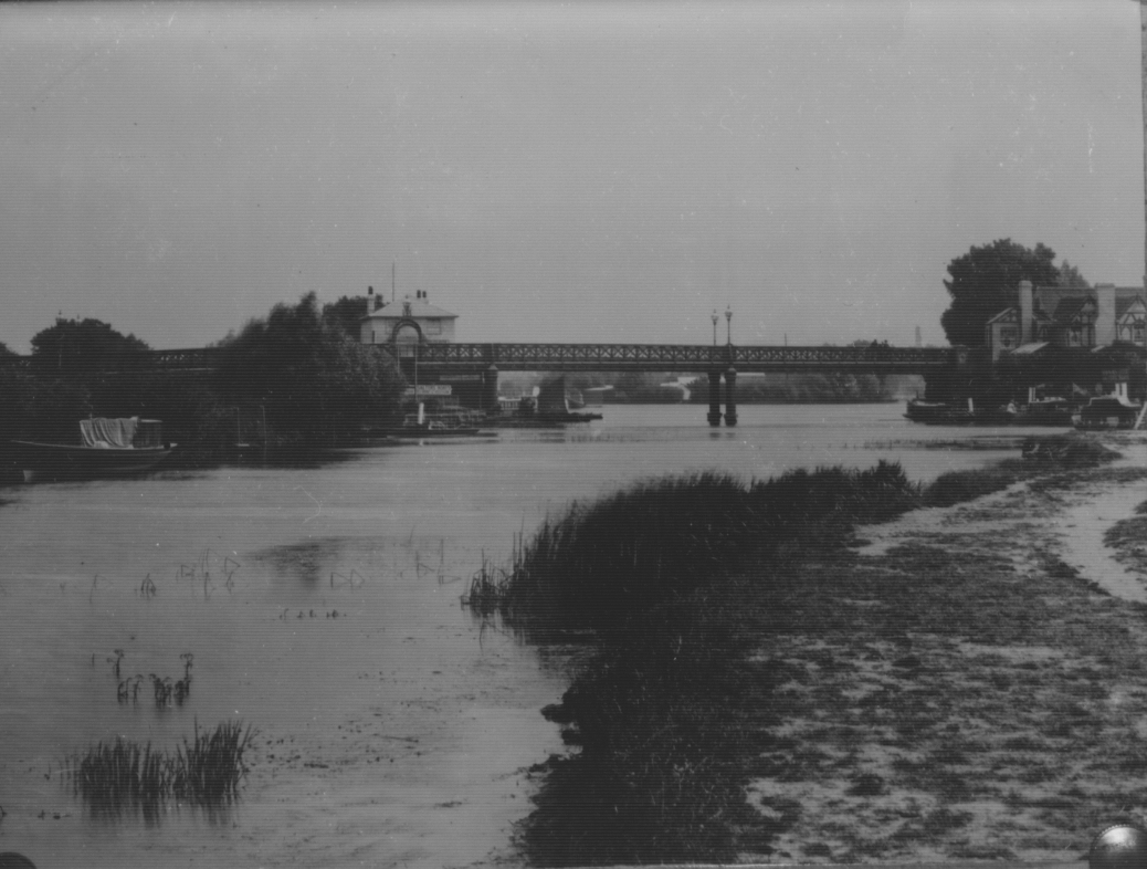 Caversham Bridge, Reading, from upstream, c. 1900. The waterman's house appears behind the bridge, and there is a large advertising sign for Salter's boats on the island. Bona's Caversham Bridge Hotel is to the right, with several steam launches moored by it. 1900-1909 : glass negative by H. W. Taunt, [numbered 8818], Box 21, un-numbered 3.